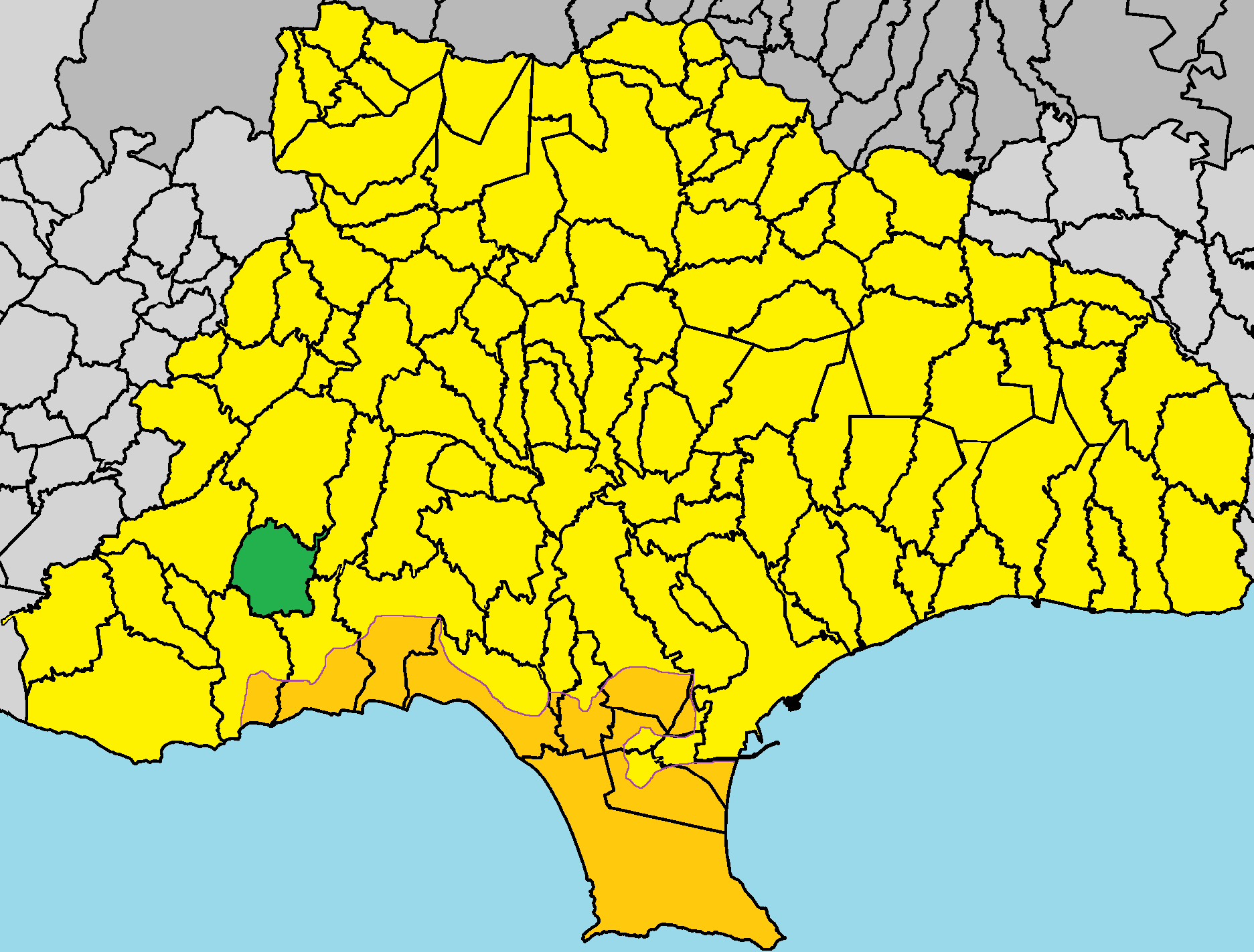 Prastio (Avdimou) in Limassol District.